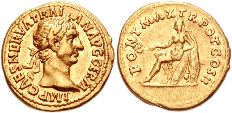 Trajan. AD 98-117. AV Aureus (19mm, 7.74 g, 6h). Rome mint. Struck February-October, AD 98. IMP CAES NERVA TRAI-AN AVG GERM, laureate head right PONT MAX TR POT COS II, Germania seated left on oblong shields, holding olive-branch in right hand, left arm resting on shields; below shields, helmet. RIC II 15; Wolters 3; Strack 12; Calicó 1070; BMCRE 8; Cohen 290.